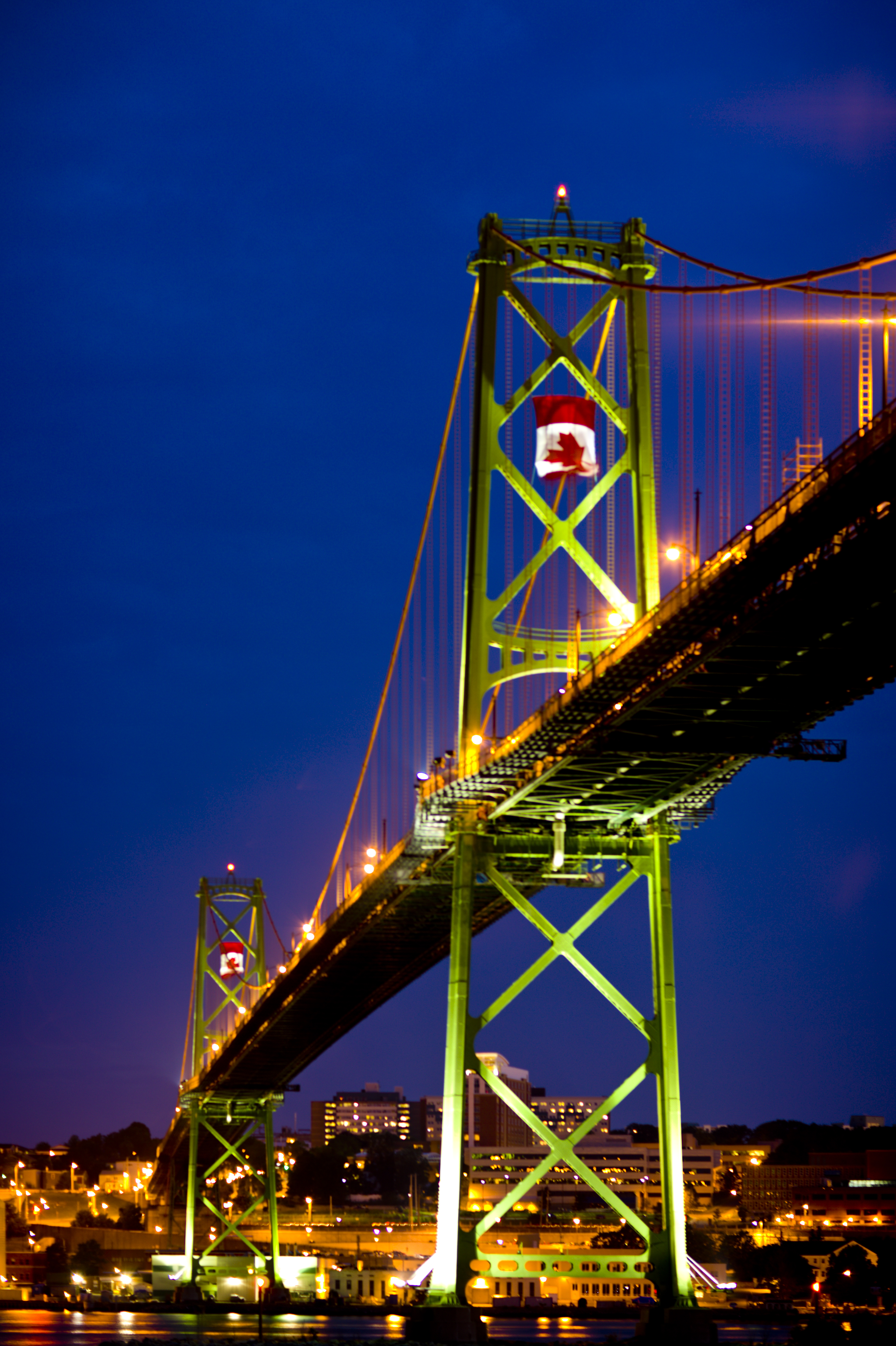 The Angus L. Macdonald Bridge The , locally known as "the old bridge", is a suspension bridge crossing Halifax Harbour in Nova Scotia, Canada; it opened on April 2, 1955.